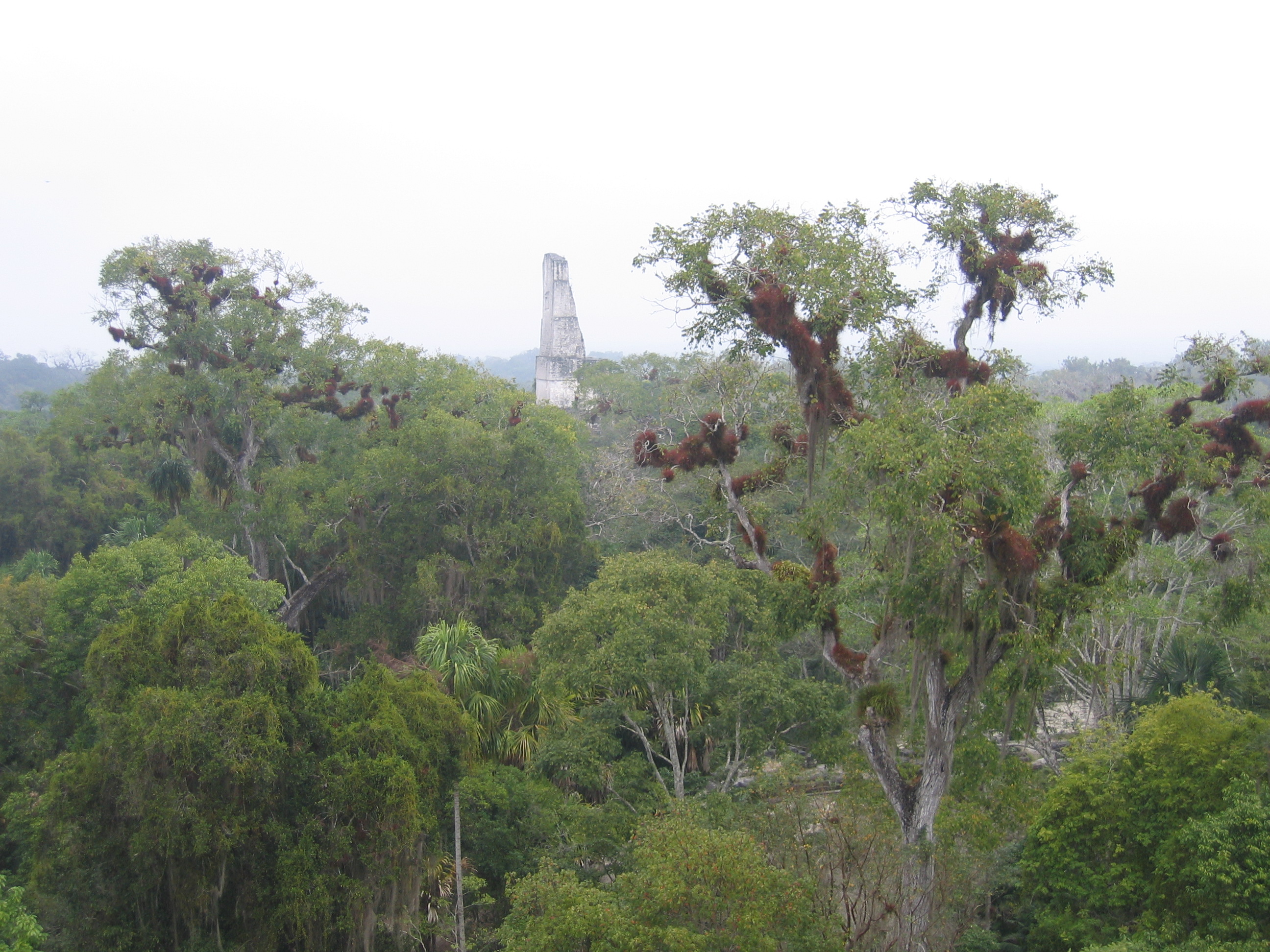 From the mayan site Tikal